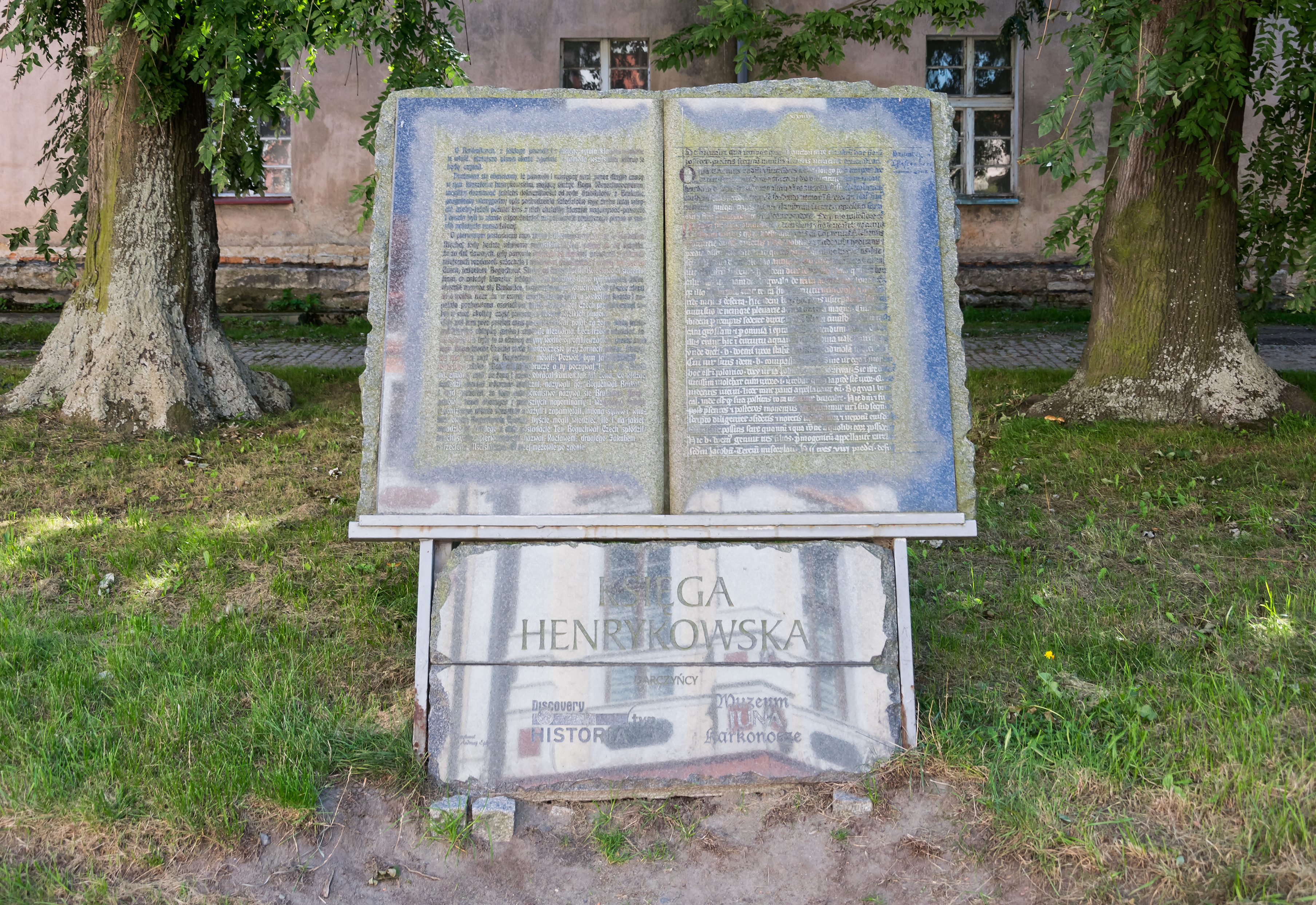 Księga henrykowska monument in Henryków